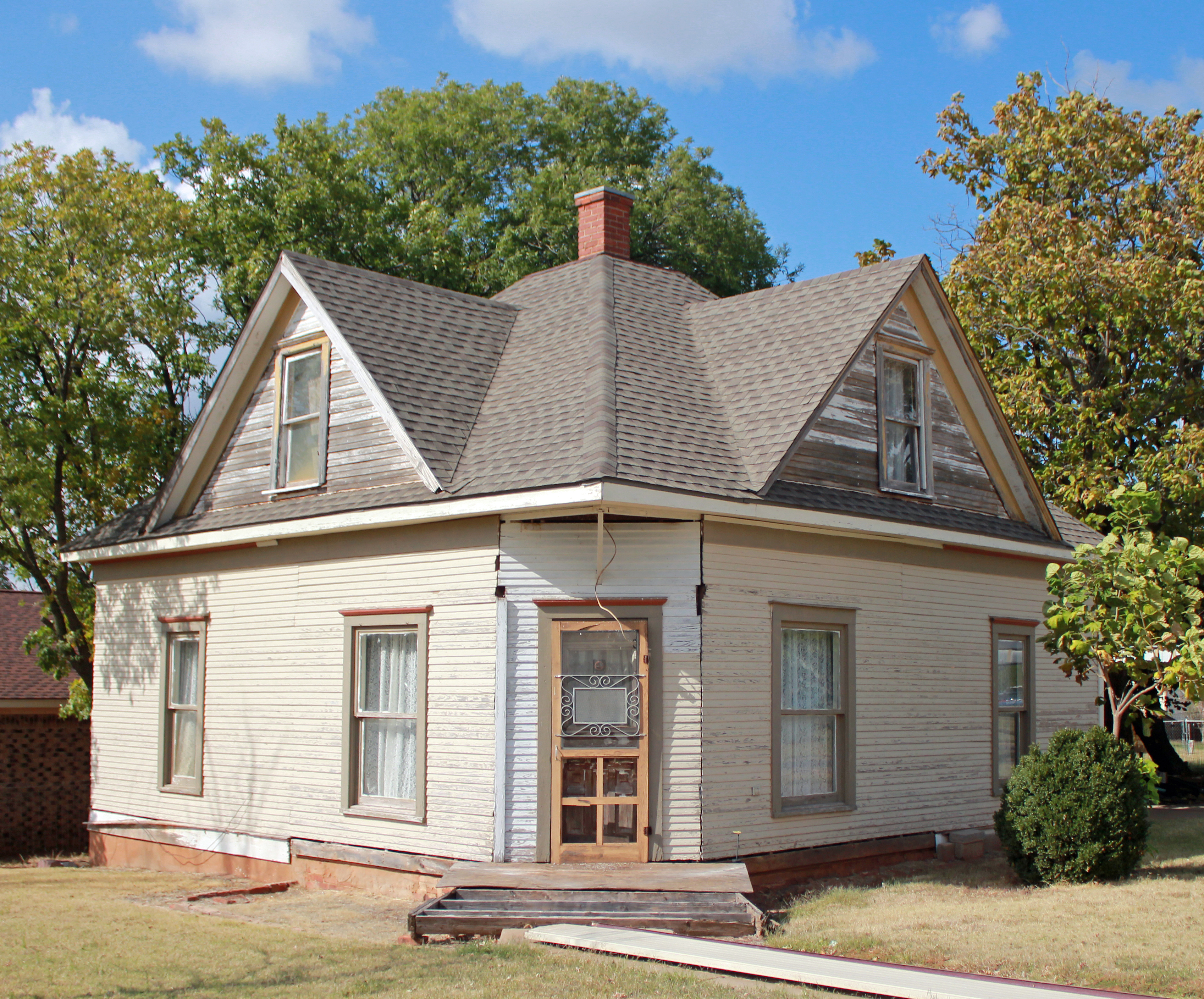 "The Crawford House in Clinton, Oklahoma is significant because it is the only extant structure associated with Isabel Crawford, one of the first women missionaries to the Kiowa Indians in Oklahoma. It is also one of the few restored plains cottage homes in Southwest Oklahoma. Isabel Crawford was born in 1865 to Irish parents in Cheltenhaw, Ontario, Canada. Crawford's parents had moved to Canada after her Presbyterian father converted to become a Baptist. At age eleven, Isabel was also converted and baptized. Crawford first encountered Indians after her family moved to St. Thomas, North Dakota in 1882. Crawford's career as a missionary to the Kiowa Indians began in 1893, the year she graduated from the American Baptist Missionary Training School in Chicago. She came to Oklahoma and founded the Saddle Mountain Mission near present day Hobart, Oklahoma. Crawford ran the mission from 1893 until 1906. She did not establish a school as there was one at the Presbyterian Mission at nearby Rainy Mountain, Oklahoma. Crawford left the Kiowa Church work to do organization work, traveling, and writing in 1906, but continued for the American Baptist Home Mission Society until she retired in 1930. Her brother owned the Clinton house from 1908 to 1916. She bought the house from her brother, Hugh Crawford, in 1916. She kept the house until she sold it back to her brother, Hugh, in 1941. Crawford wrote three books about her missionary experiences: Joyful Journey, Highlights on the High Way; An Autobiography, Kiowa; The History of the Blanket Indian Mission, and Jolly Journey. Crawford retired to Grinsley, Ontario, Canada, where she lived until her death at age 97. She was buried at Saddle Mountain Mission in 1961"--From the NRHP nomination form.